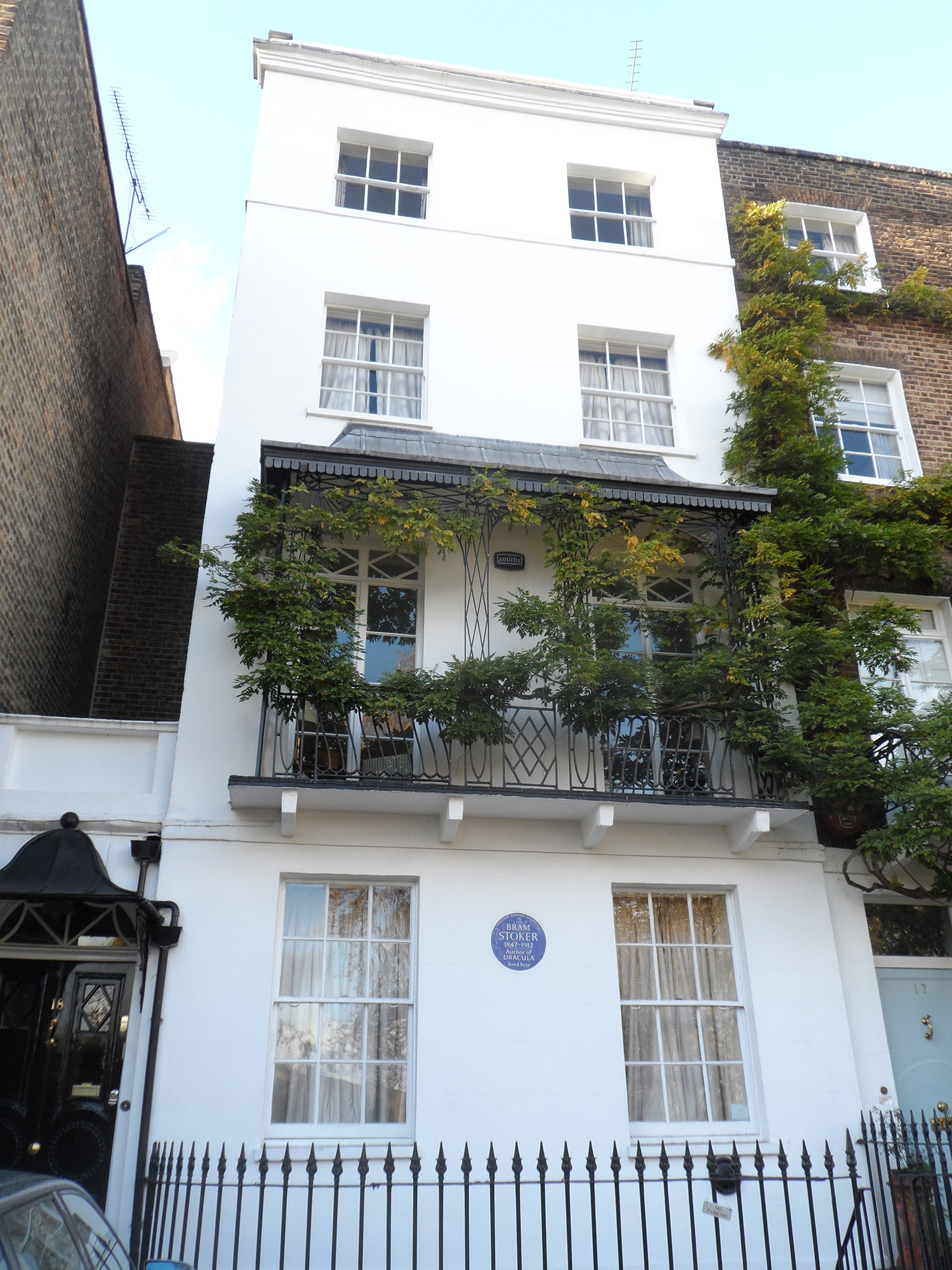 BRAM STOKER 1847-1912 Author of DRACULA lived here